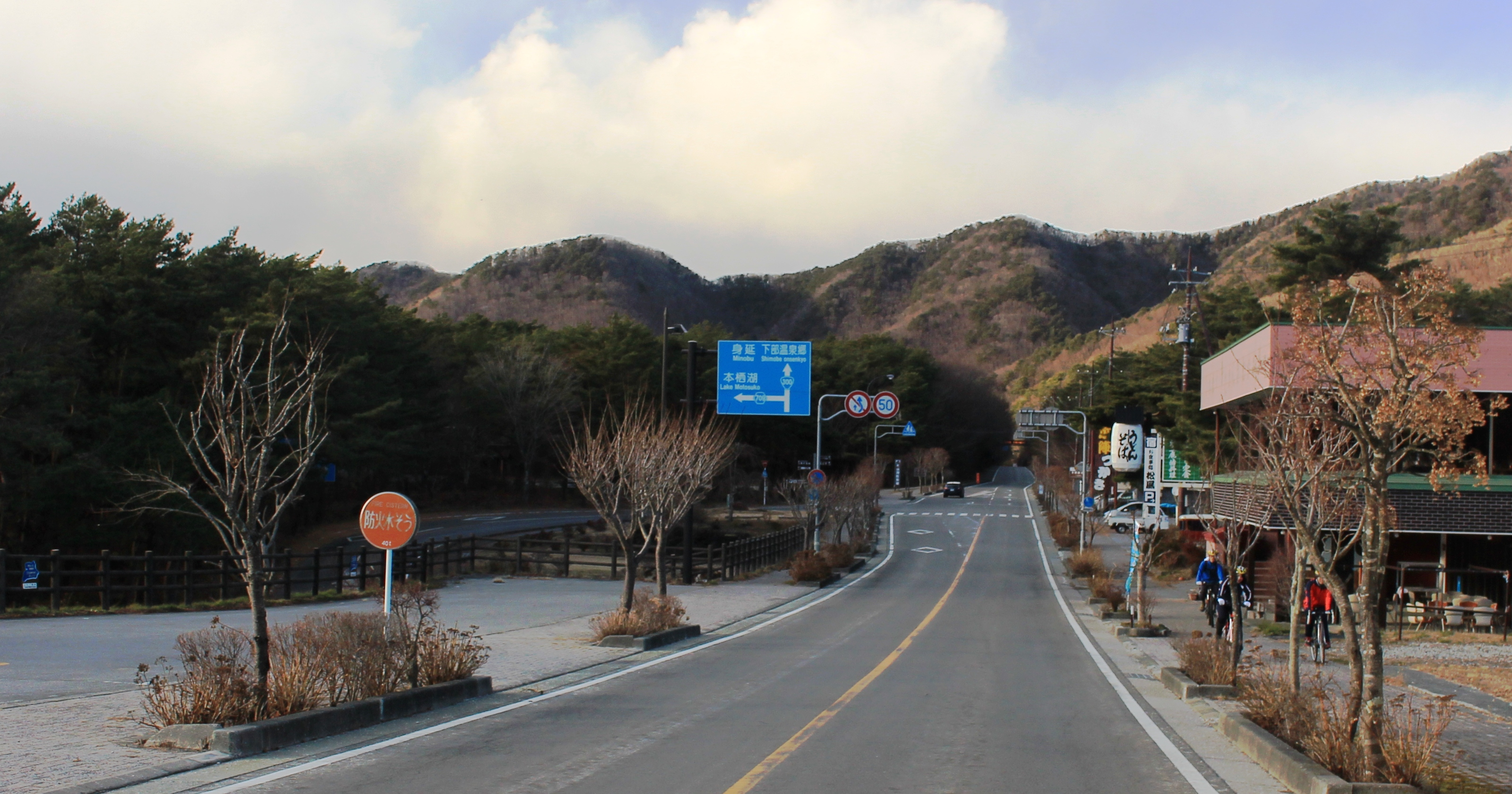 Route 300 and stating point of Yamanashi prefectural road Route 709 in Motosu, Fujikawaguchiko, Yamanashi prefecture, Japan.